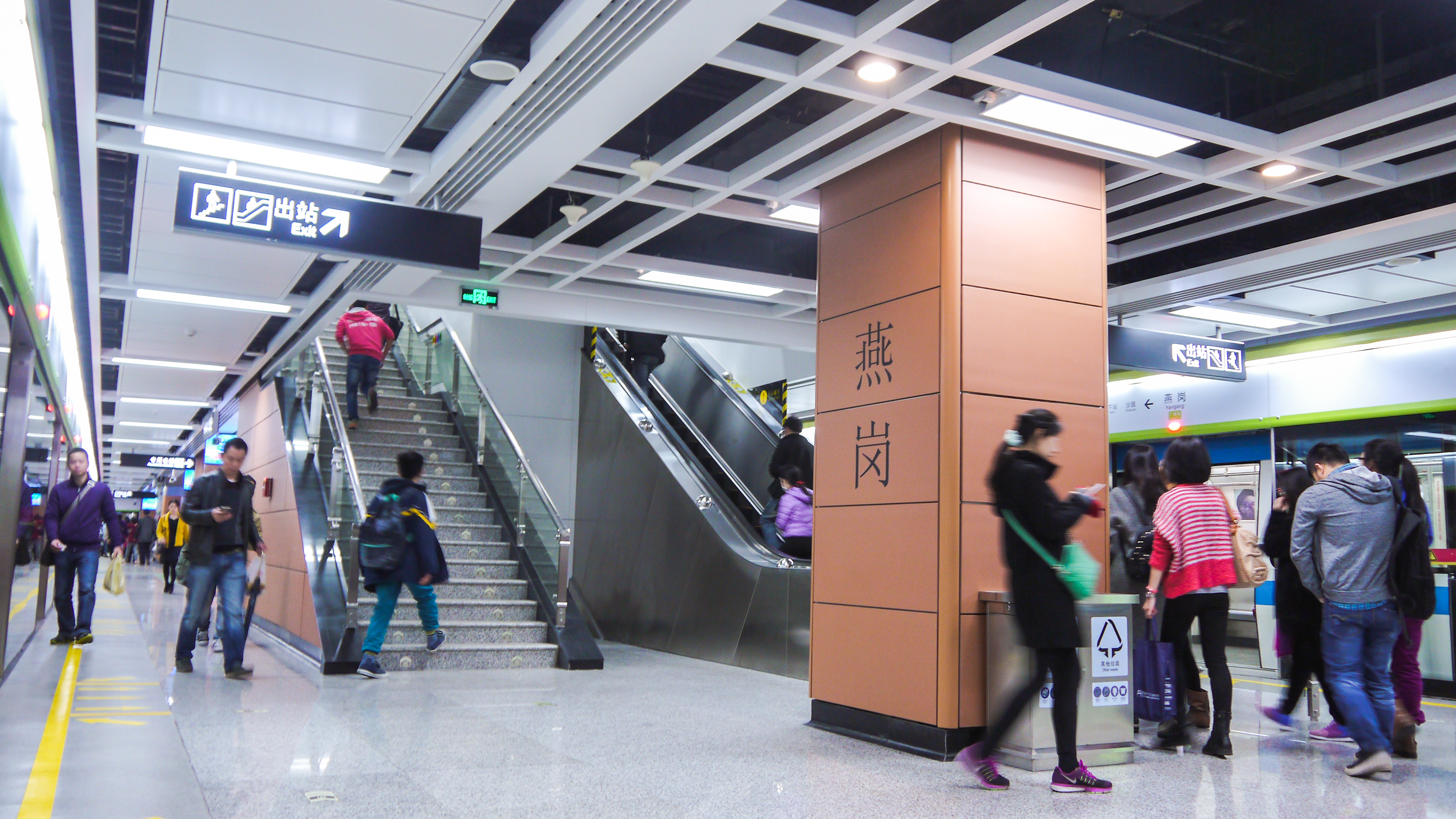 Yangang Station in 12/28/2015